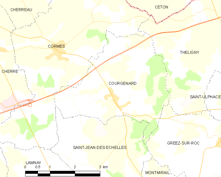 Map of French municipality